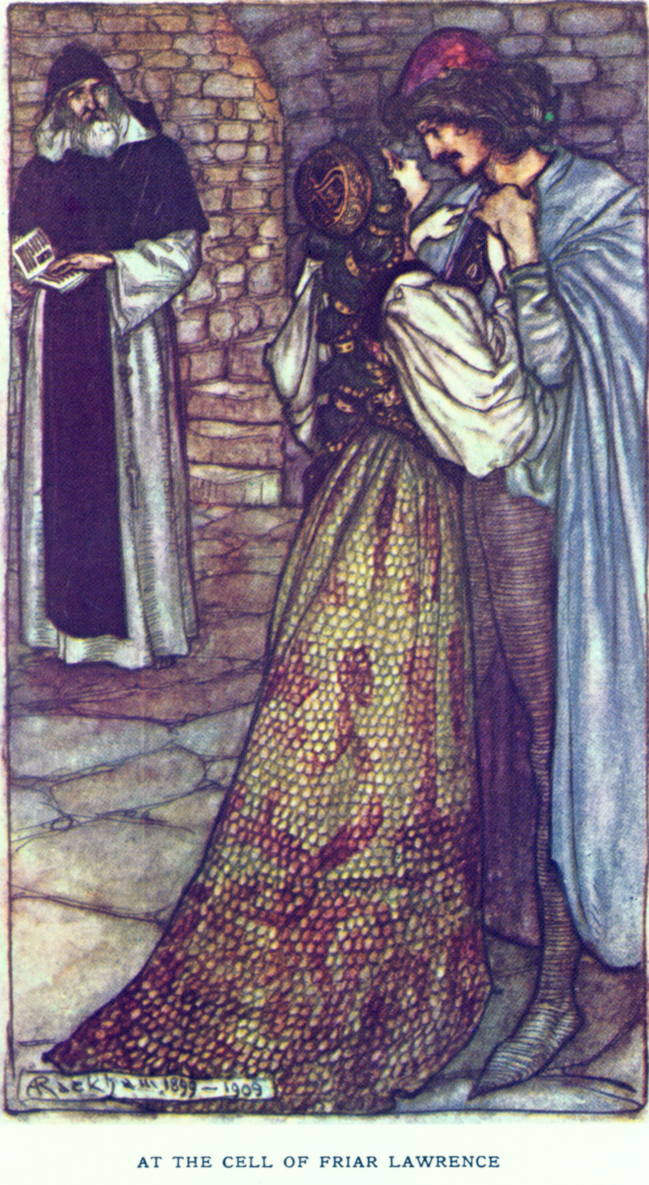 Romeo and Juliet by Arthur Rackham, 1909 (Tales from Shakespeare by Charles and Mary Lamb).